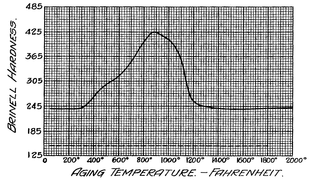 Figure in the US patent of Age hardenable chromium-nickel stainless steel (precipitation hardening stainless teel) by Ernest H. Wyche and Smith Raymond.